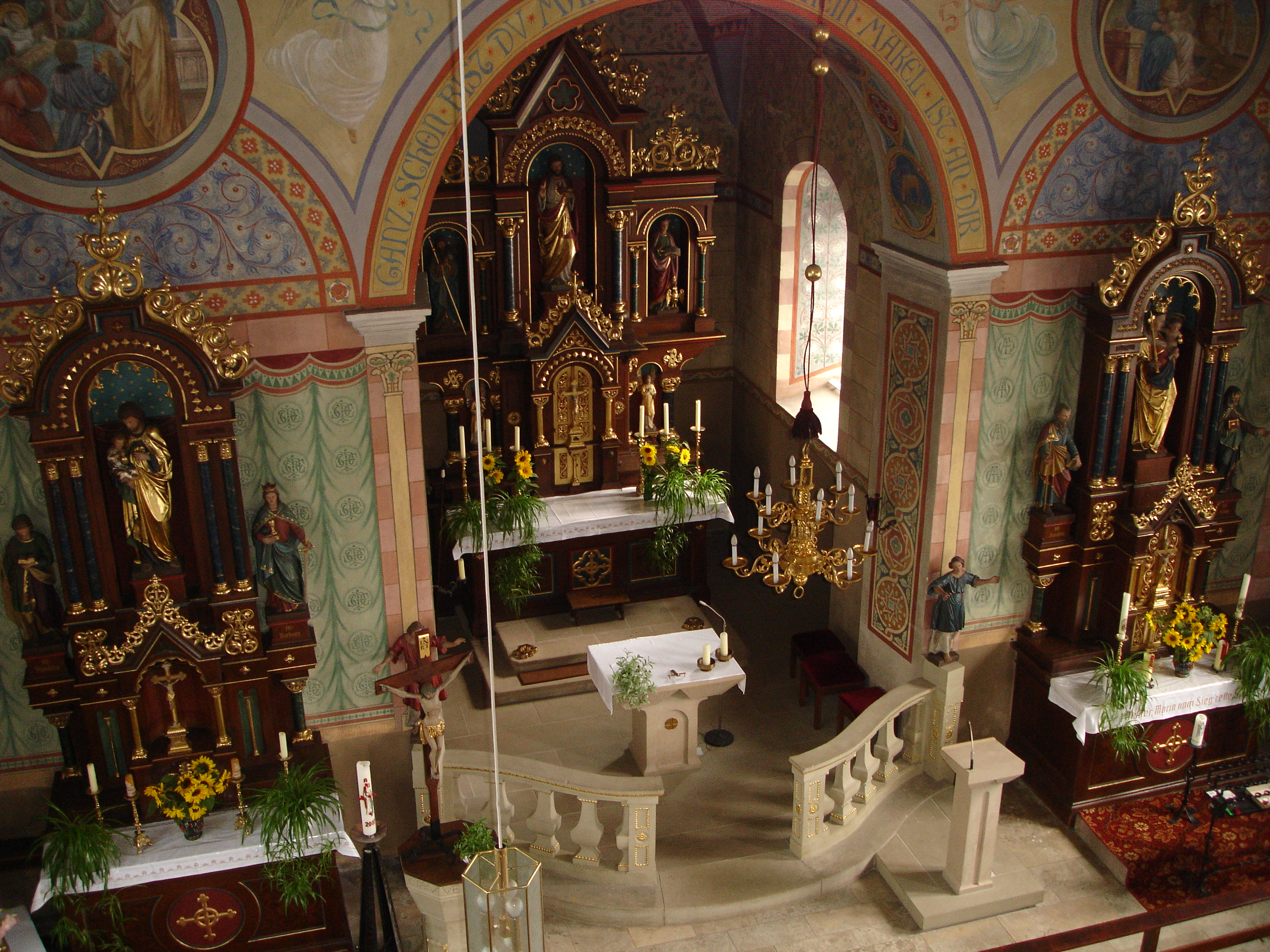 Altars of the pilgrimage church "Maria Victory" made by Valentin Oeckler